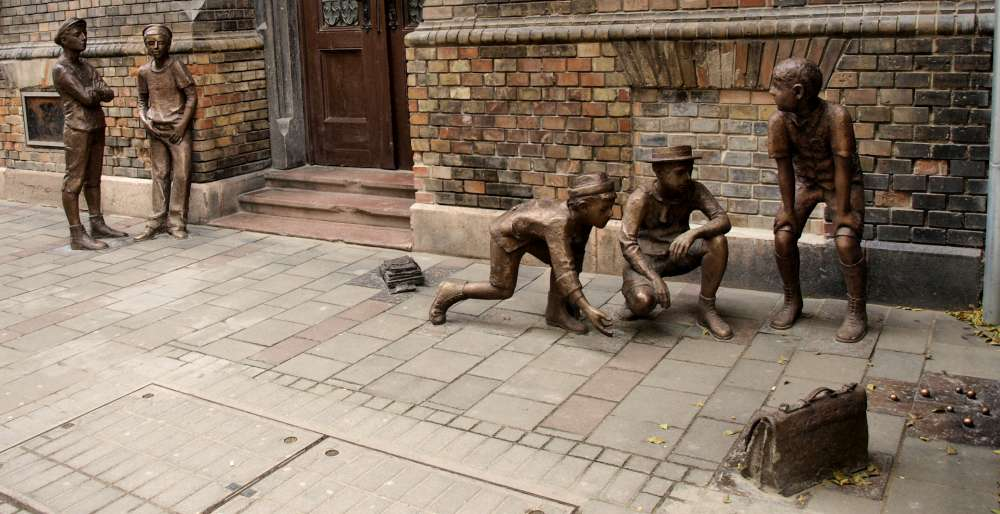 Paul street boys sculpture, Budapest, 8. district, Práter street school inspired after Hungarian writer Ferenc Molnar's novel: "Paul street boys" Sculptor: Péter Szanyi